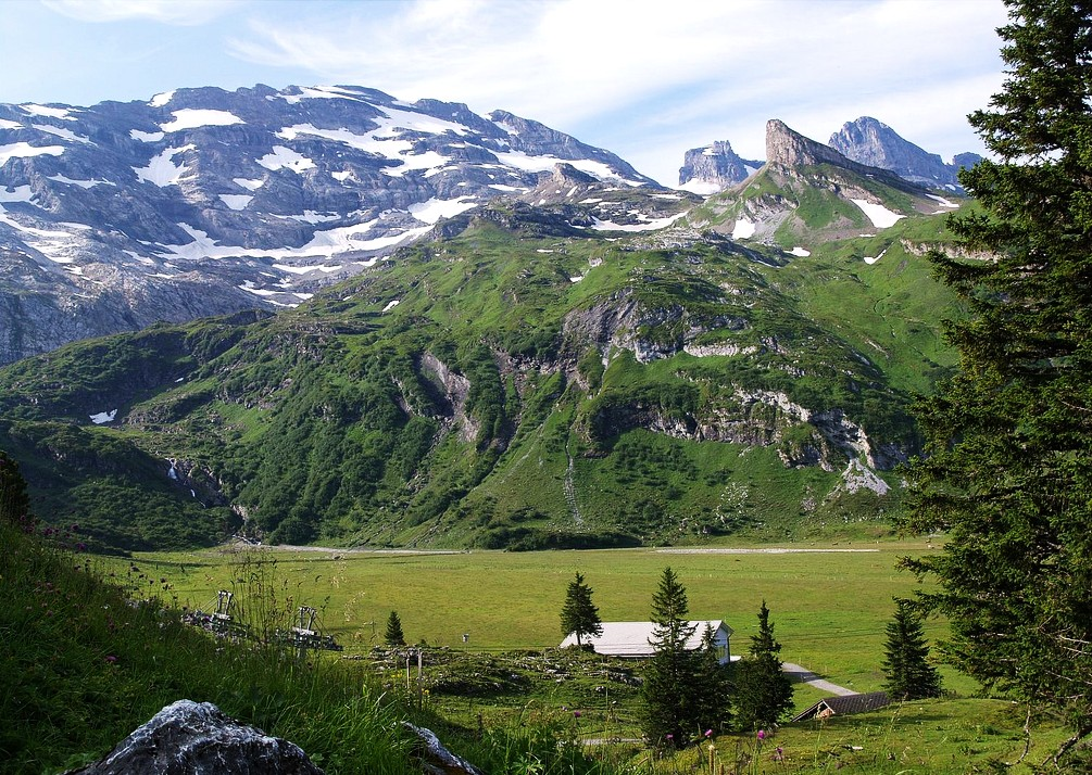 Reissend Nollen from Trüebsee cable car station, above Engelberg, Switzerland